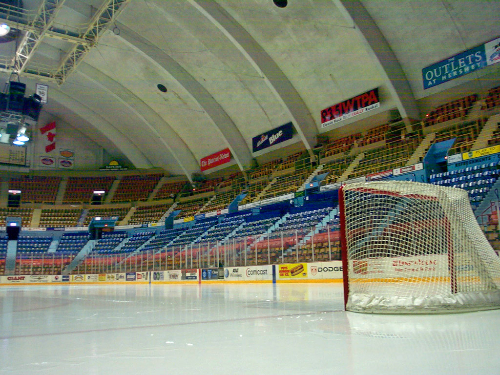 HersheyPark Arena, Hershey, PA ice level view, 2001